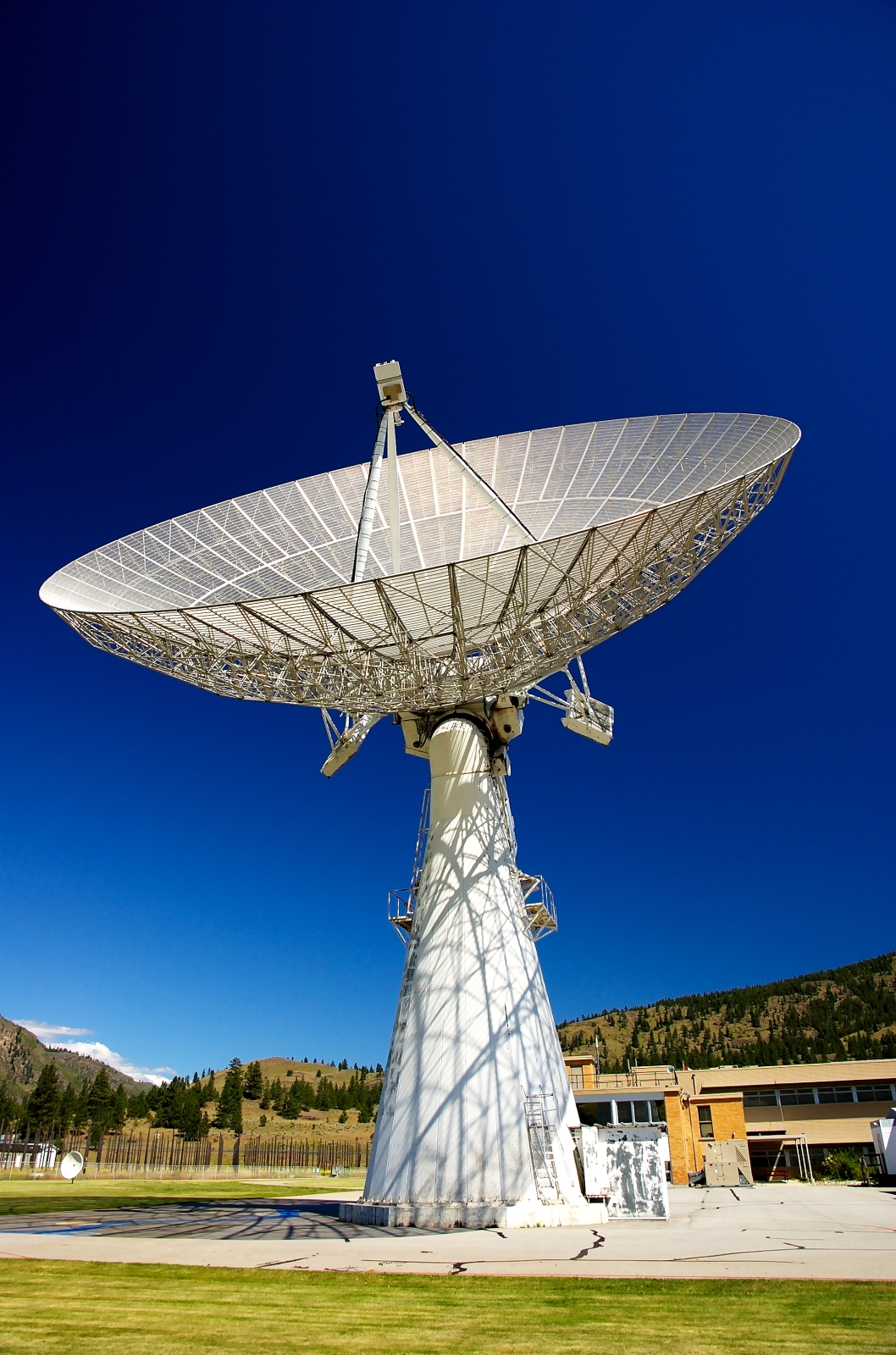 The largest "dish" telescope at the Observatory is 26 metres in diameter. Its curved surface is a mirror which reflects the incoming radio waves to the focal point near the top of the tripod. Here a small antenna collects the radio energy and feeds it to a sensitive radio receiver. The receiver boosts the weak signal which is then sent down a cable to the control building, where it is recorded for later analysis. The 26-metre telescope is mainly used to receive radio waves of 21 -centimetre wavelength. At any instant, it records the radio emission from an area of sky about the size of the full moon. The telescope can be pointed in any direction above the horizon by motors that drive it around two perpendicular axes, and it can "track" a certain object in the sky as the earth rotates. It is used for studies of diffuse clouds of hydrogen gas in our galaxy by observing the 21 -centimetre-wavelength radio waves that are emitted by hydrogen atoms. In addition, clouds of interstellar gas that have been heated by newly-formed stars have been investigated. The high temperature of these clouds results in very agitated motions of their atoms and electrons, producing radio emission. Superimposed on this general emission from the hot gas are weak radio signals, at specific wavelengths, from atoms other than hydrogen. Studies of these "trace" elements will provide insight into the composition of gas clouds such as the one out of which the sun and solar system formed. -DRAO